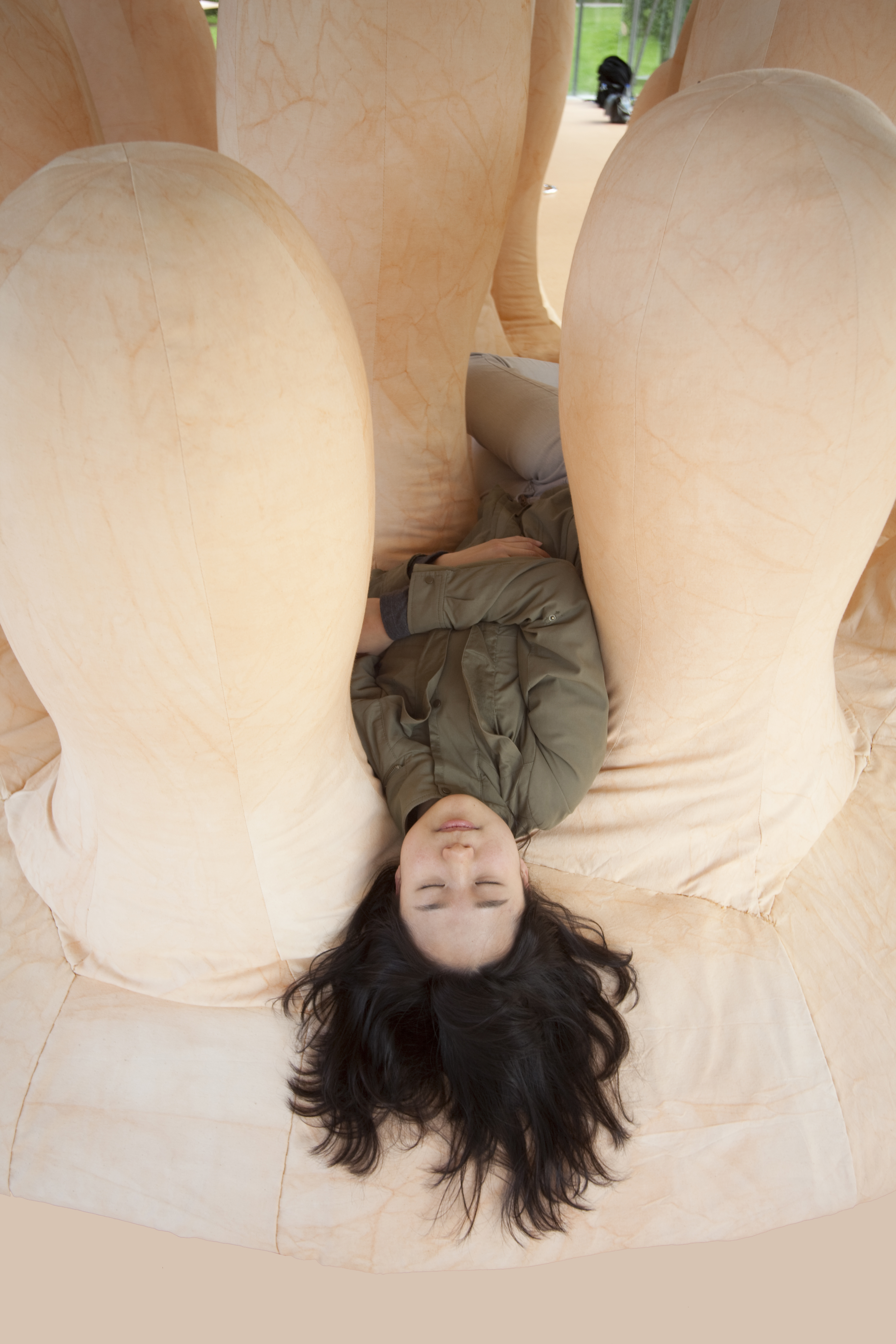 Ute Reeh, 'Therapeutical 9', usable sculpture, fabric, diolen, foam, wood, felt, 340 x 340 x 140 cm, in the exhibition: Ute Reeh - Therapeutical Sculptures, Wewerkapavillion Münster / Kardinal-von-Galen-Ring, Aaseegelände, Münster, Germany, 23 May – 26 June, 2012